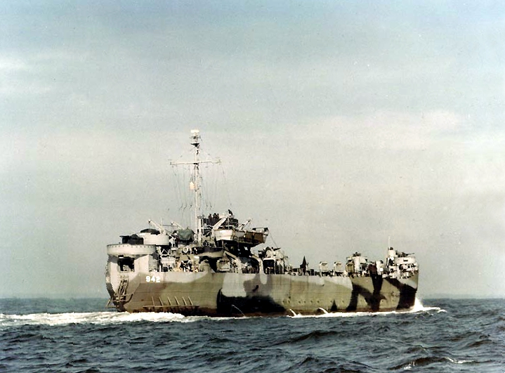 The U.S. Navy tank landing ship USS LST-942 underway soon after completion, circa late 1944. LST-942 is painted in Camouflage Measure 31, Design 8L or Design 18L. LST-942 was laid down on 1 August 1944 at Hingham, Massachssetts (USA), by the Bethlehem-Hingham Shipyard, Inc.; launched on 6 September 1944; and commissioned on 26 September 1944. During World War II, LST-942 was assigned to the Asiatic-Pacific theater and participated in the Visayan Islands landings in April 1945. Following the war, she performed occupation duty in the Far East until mid-February 1946. LST-942 returned to the United States and was decommissioned on 26 June 1946 and struck from the Navy list on 31 July that same year. On 10 June 1948, the ship was sold to the Humble Oil & Refining Co., of Houston, Texas (USA), for operation.